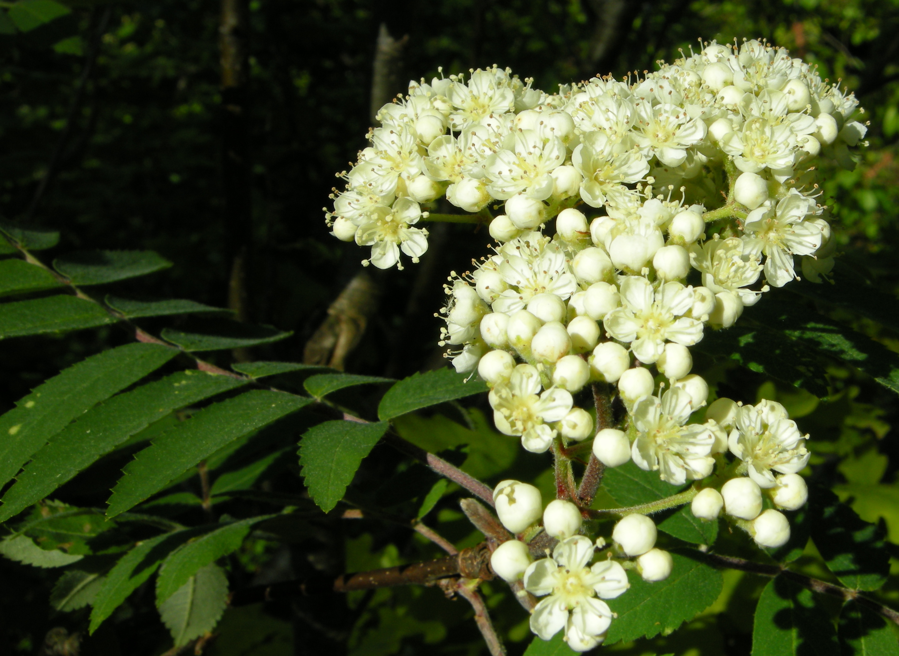 Sorbus aucuparia (Rowan, European Rowan). Larvik, Norway.